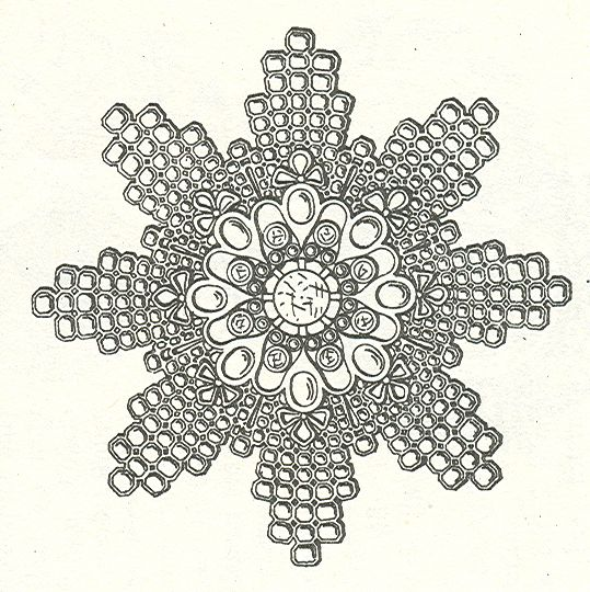 Order of the Nine Gems Thailand